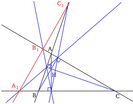 Orthic Axe of a triangle